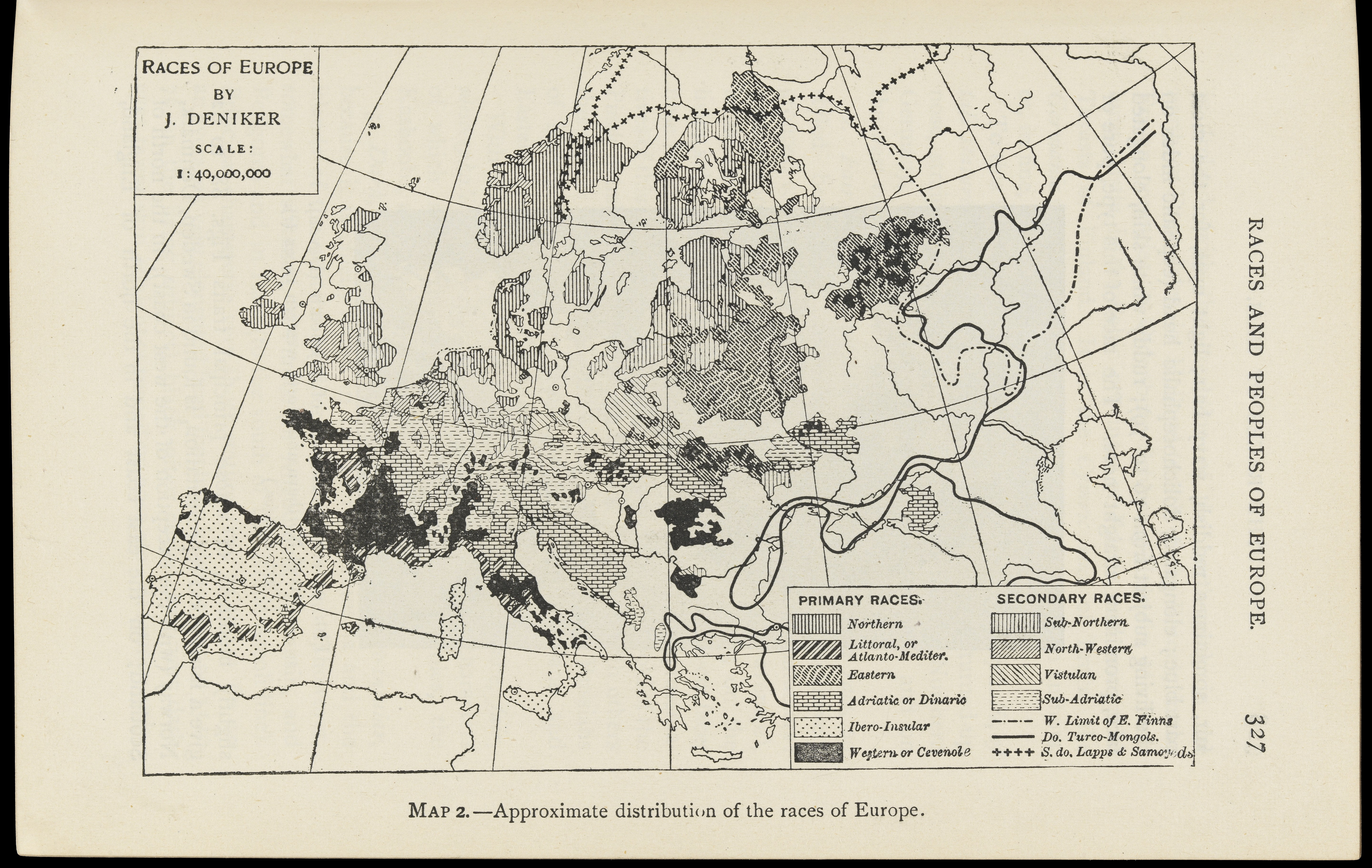 From the contemporary science series ; [XXXVII]. "The races of man : an outline of anthropology and ethnography", by Joseph Deniker (1852-1918). Map showing the 'Approximate distribution of the races of Europe', p.327 Rare Books Keywords: Anthropology; Ethnology